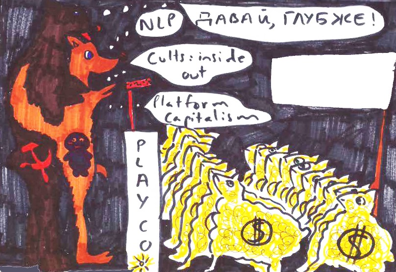 Davay Glubzhe art creation